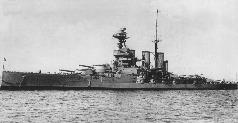 Battlecruiser HMS Tiger. She is in her post-1918 configuration, with mainmast ahead of her third fuunel.